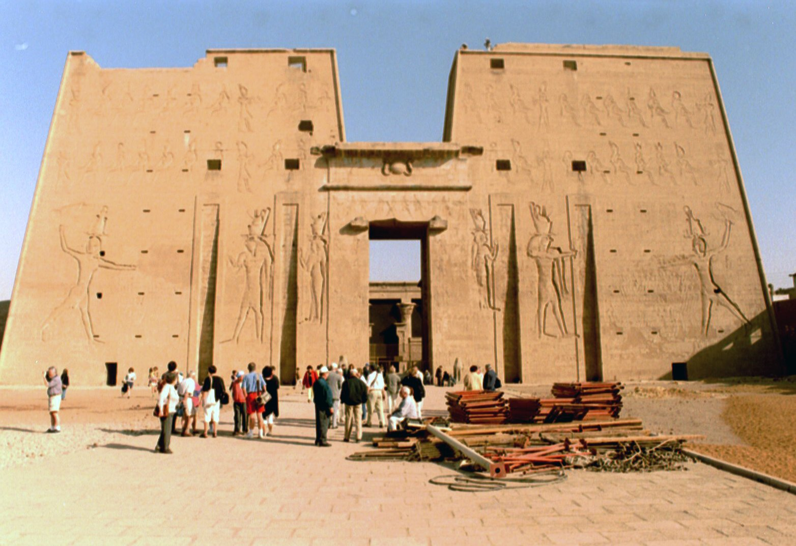 Pylon of the Temple of Edfoe Egypt (Harm Frielink).